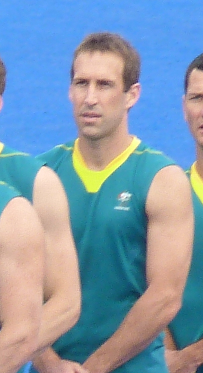 2012 Olympic field hockey team Australia at the Riverbank Arena before the game against Spain